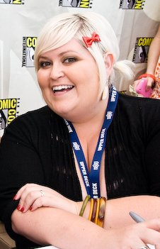 American actress Robin Thorsen from The Guild, online sitcom, at San Diego ComicCon International 2008.